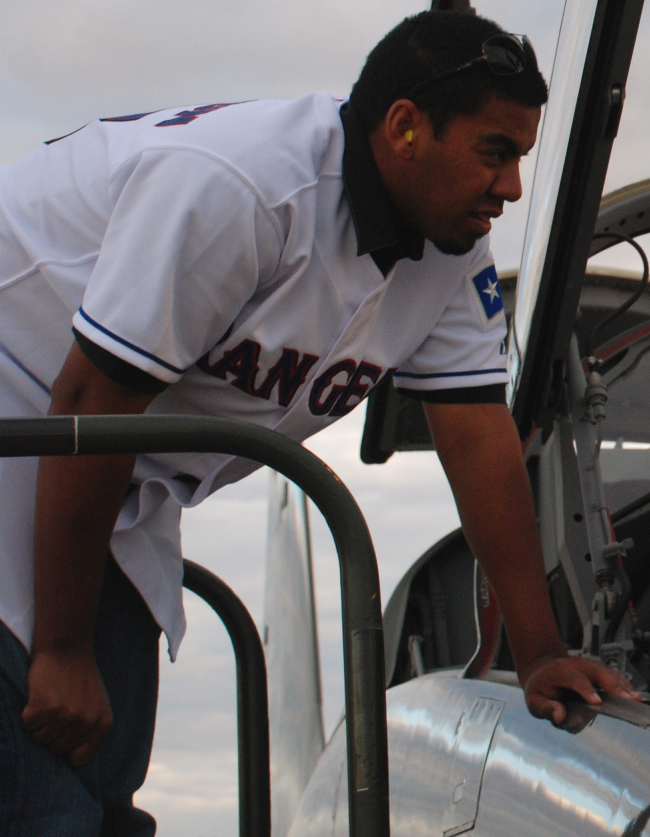 Lt. Col. Ternell Washington, 80th Flying Training Wing, shows the inside of a T-38C Talon to Wes Littleton (left), a pitcher with the Texas Rangers baseball team, and Travis Metcalf, a third baseman with the Texas Rangers Jan. 15. (U.S. Air Force photo/Airman 1st Class Jacob Corbin)